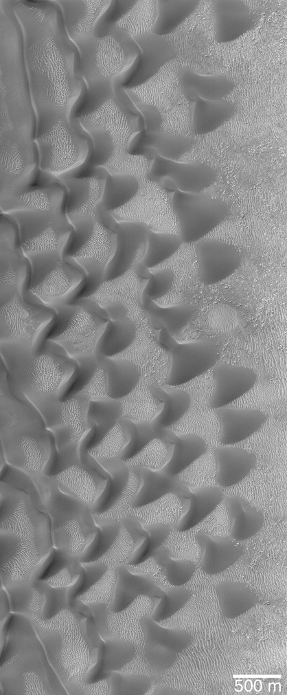 Sand dunes on Mars can appear exotic. The dark dunes above might be compared to shark's teeth or chocolate confections. In reality, they arise from the complex relationship between the sandy surface and high winds on Mars. These particular dunes are located in Proctor Crater, a 170 kilometer wide crater first seen to house sand dunes by Mariner 9 more than 25 years ago. The above picture was taken by Mars Global Surveyor (MGS), a robot spacecraft currently in orbit around Mars. MGS has recently completed a primary goal of taking and transmitting detailed survey images of the red planet over an entire Martian year (669 Earth days). MGS will now be deployed to study particularly interesting regions of Mars in more detail.